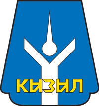 Kyzyl (Tuva), coat of arms